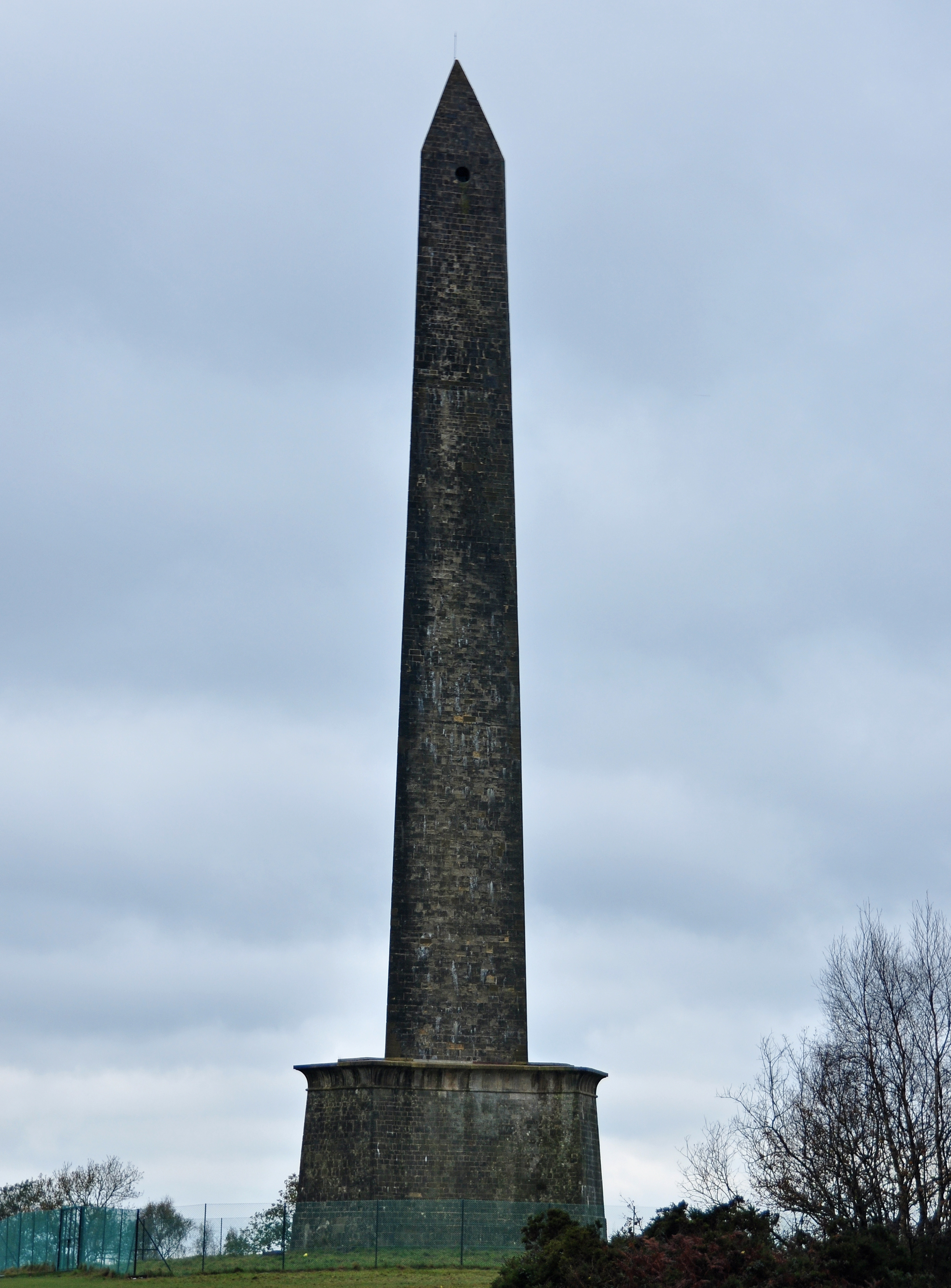 The Wellington Monument, near Wellington in Somerset.